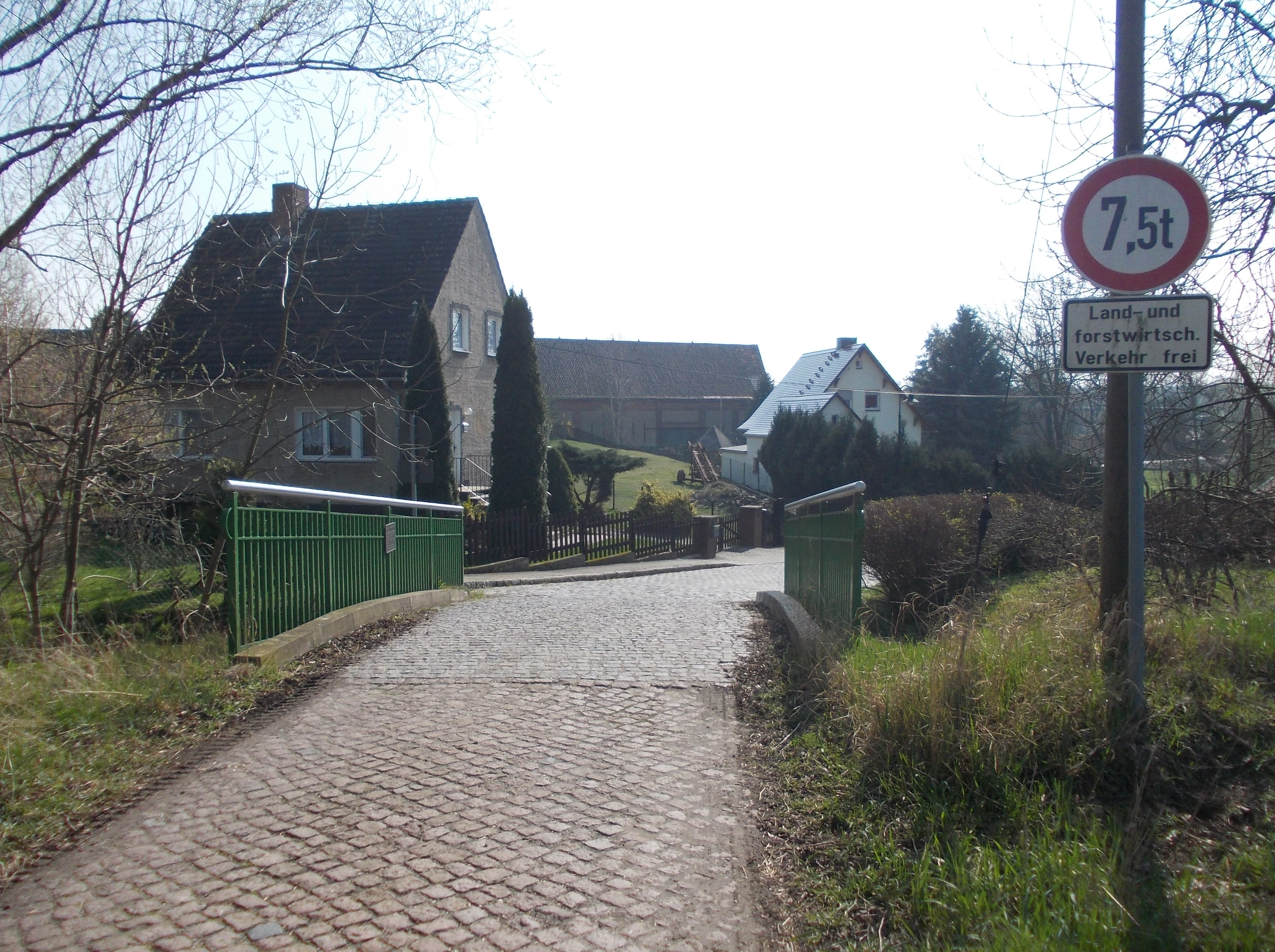 Entrance to the village of Grana (Kretzschau, district: Burgenlandkreis, Saxony-Anhalt)